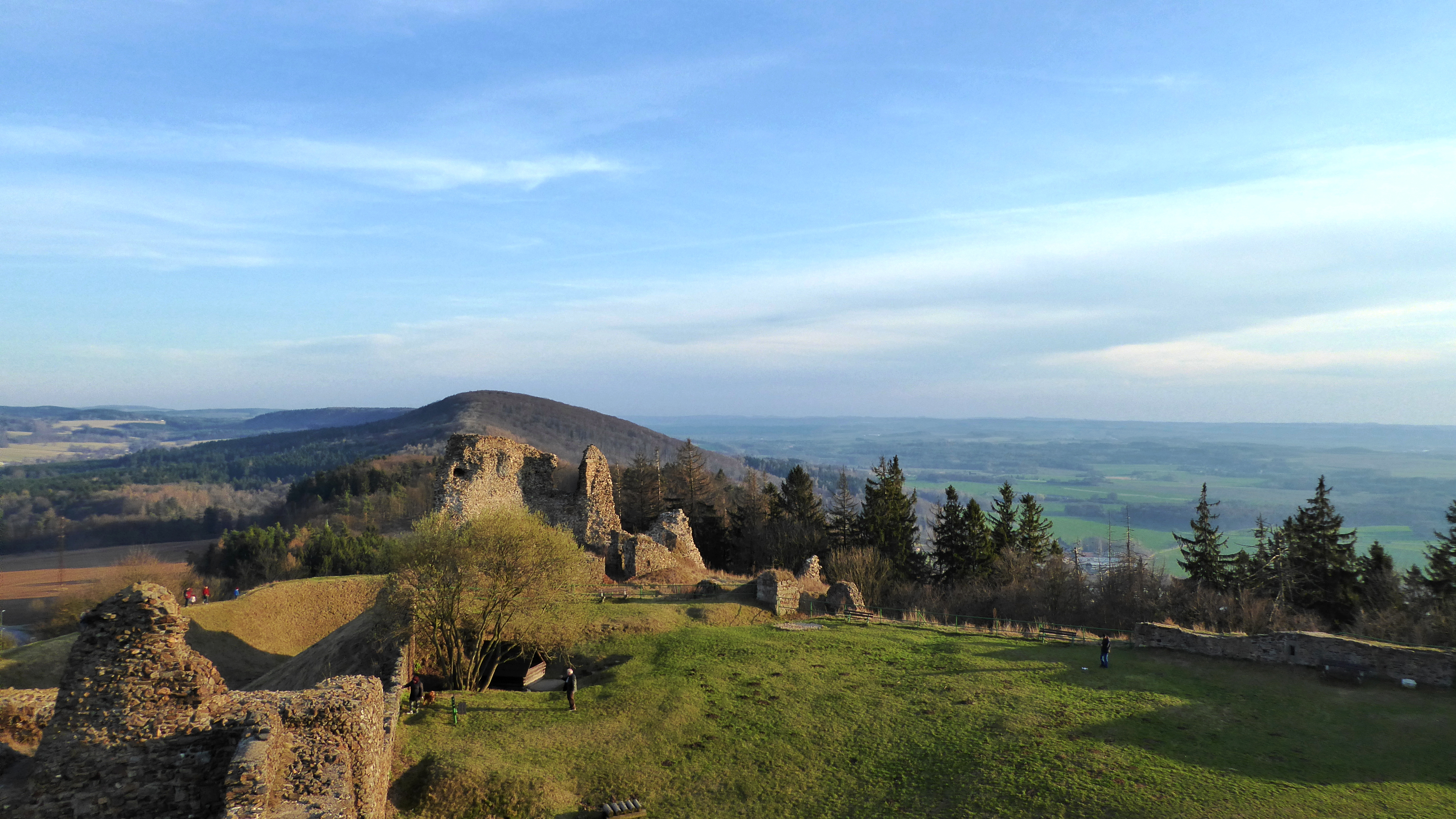 "Lichnice", castle ruin, view from the lookout tower "Milada". Lookout tower named "Milada" was built in the former castle tower in 2017, the name according to the legend bound to the original Lichtenberg castle, later with the Czech name Lichnice. In photo-shot south-southeast direction, down the grounds with the remnants of the castle ruins, behind it a significant part of the ridge with named "Kaňkovy" Mountains (up to 560 m above sea level), part of the Iron Mountains. Photo location: Czechia, Pardubice Region, villages Podhradí. Milada lookout tower, upper observation platform, azimuth 160 °.